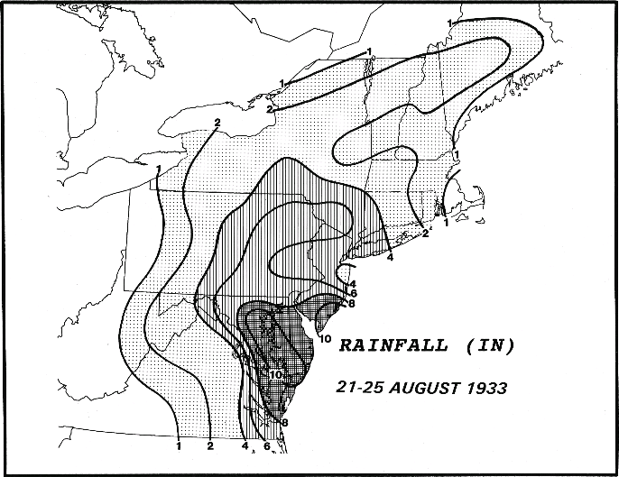 Paul Kocin, formerly of the Hydrometeorological Prediction Center, Camp Springs, MD